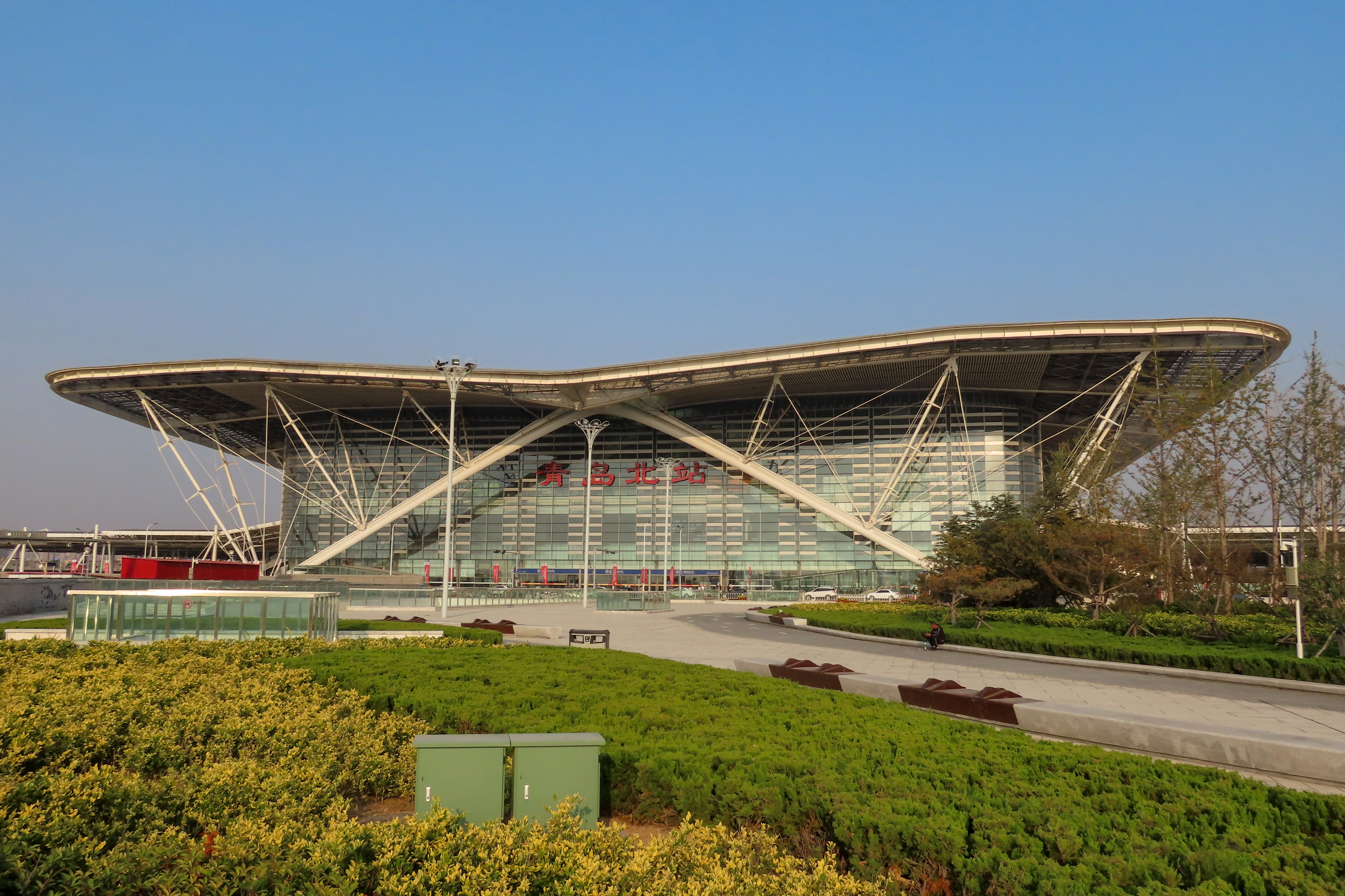 The roof looks like... wonton wrap?